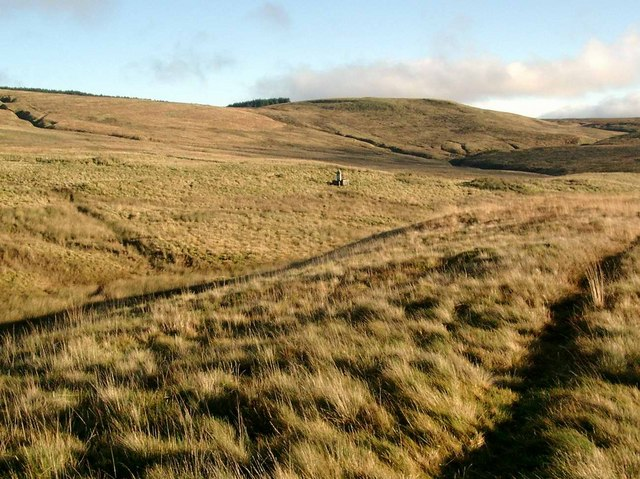 The remote Martyr's Grave of John Brown, Covenanter "In deaths cold bed the dusty part here lies Of one who died the earth as dust despises Here in this place from earth he took departure Now he has got the garland of the martyr" "Butchered by clavers and his bloody band Raging most ravenously over all the land Only for owning christs supremacy Wickedly wronged by encroaching tyranny Nothing how near so ever he to good Esteemed nor dear for any truth his blood"